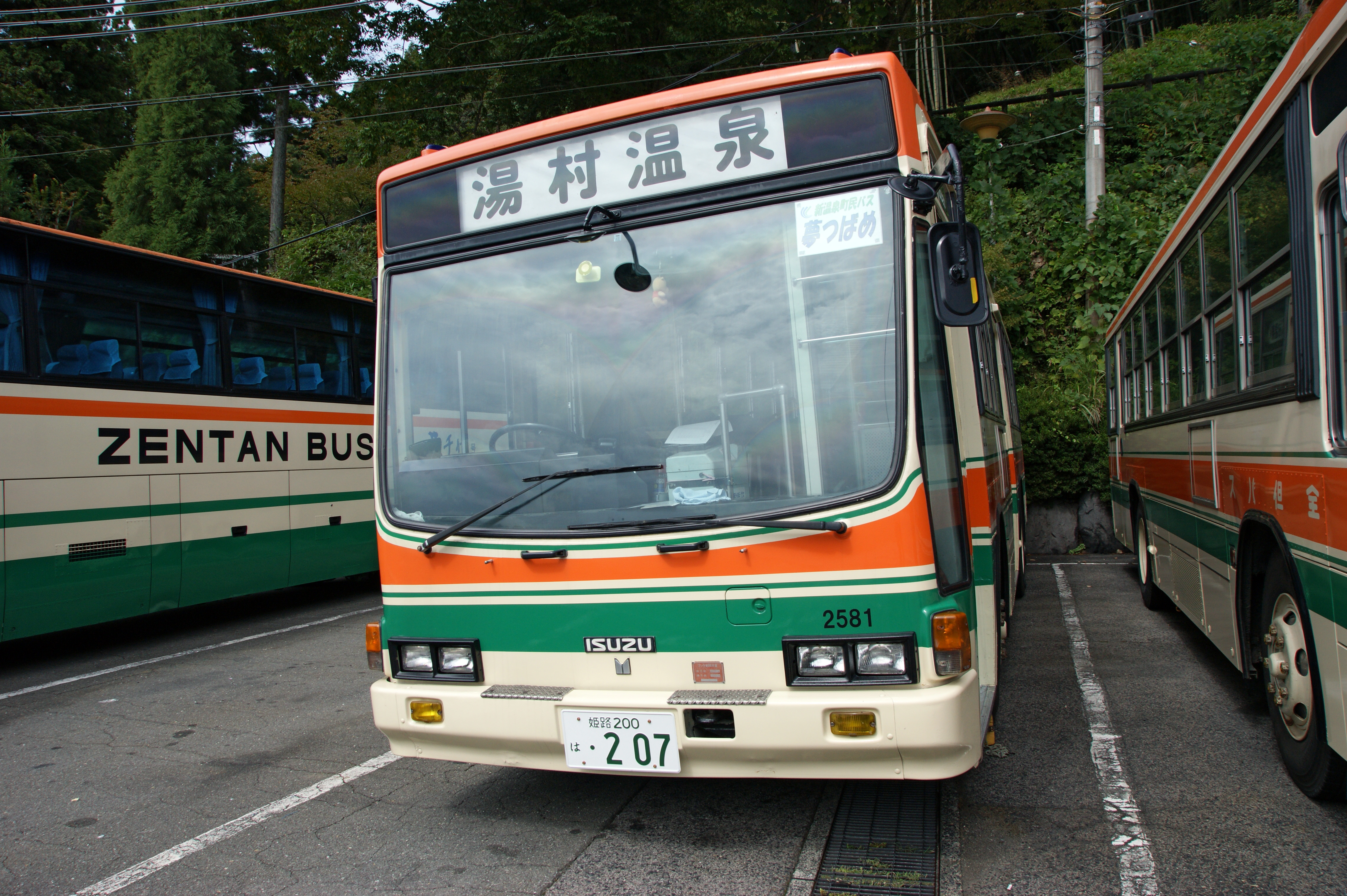 Zentan Bus Yumura Onsen office, Shinonsen, Hyogo prefecture, Japan